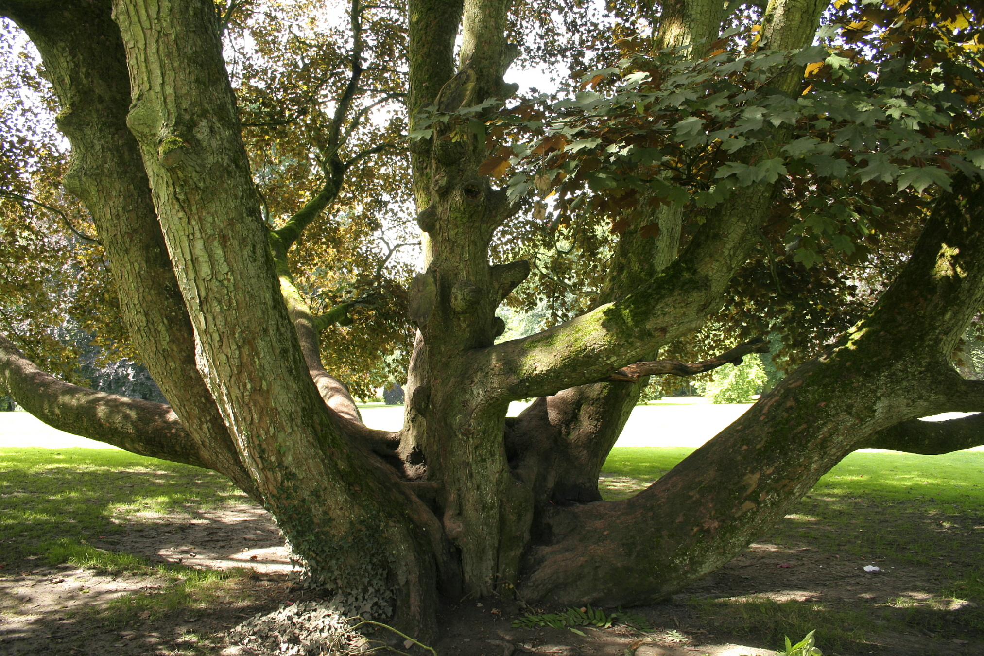 Red Sycamore Maple.